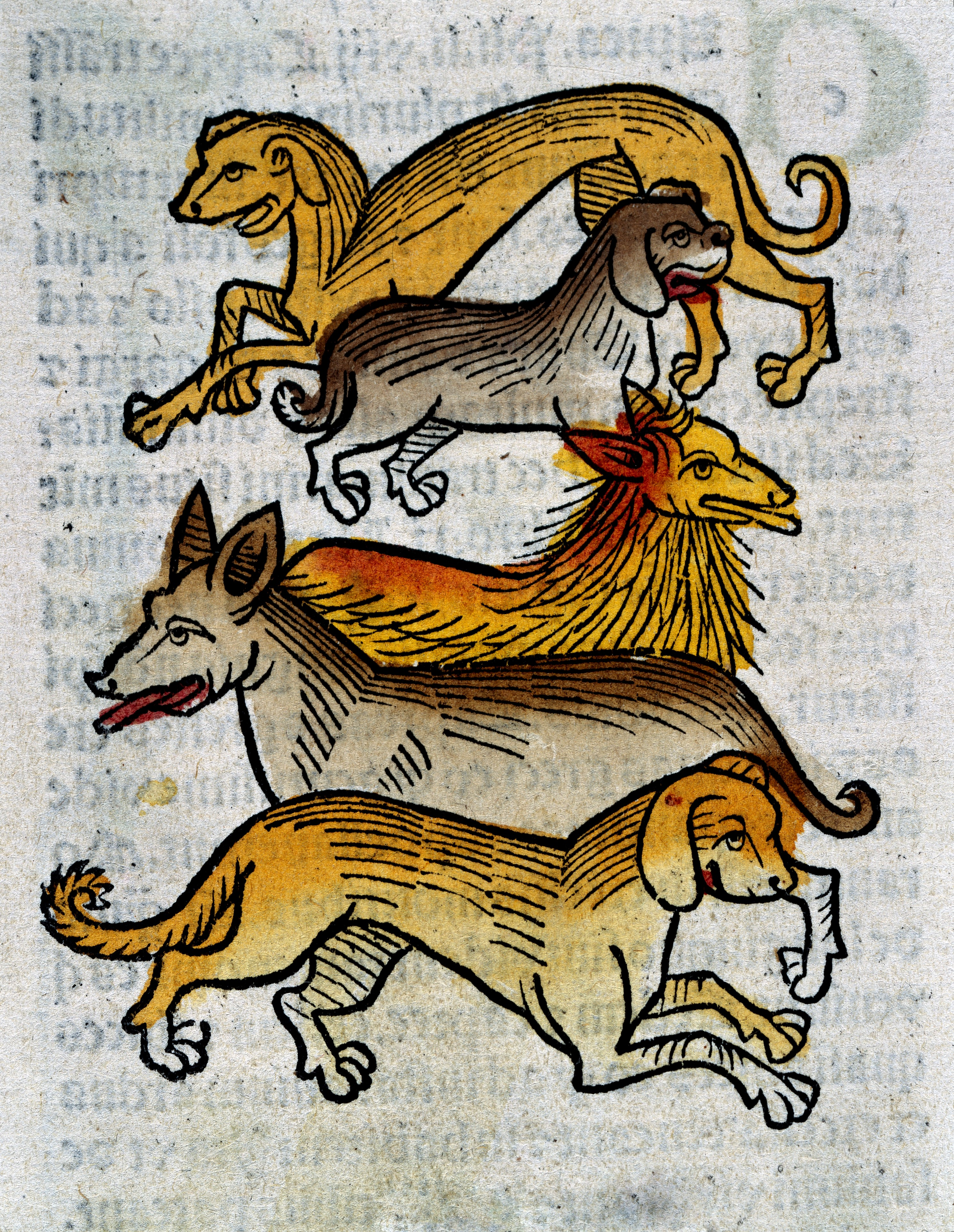 Five different types of dogs Rare Books Keywords: herbal; Hortus Sanitatis; Incunabula; Middle Ages; Medieval